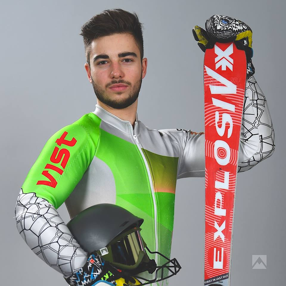 Marton Kekesi Portrait Picture before the 2018 Winter Olympic Games